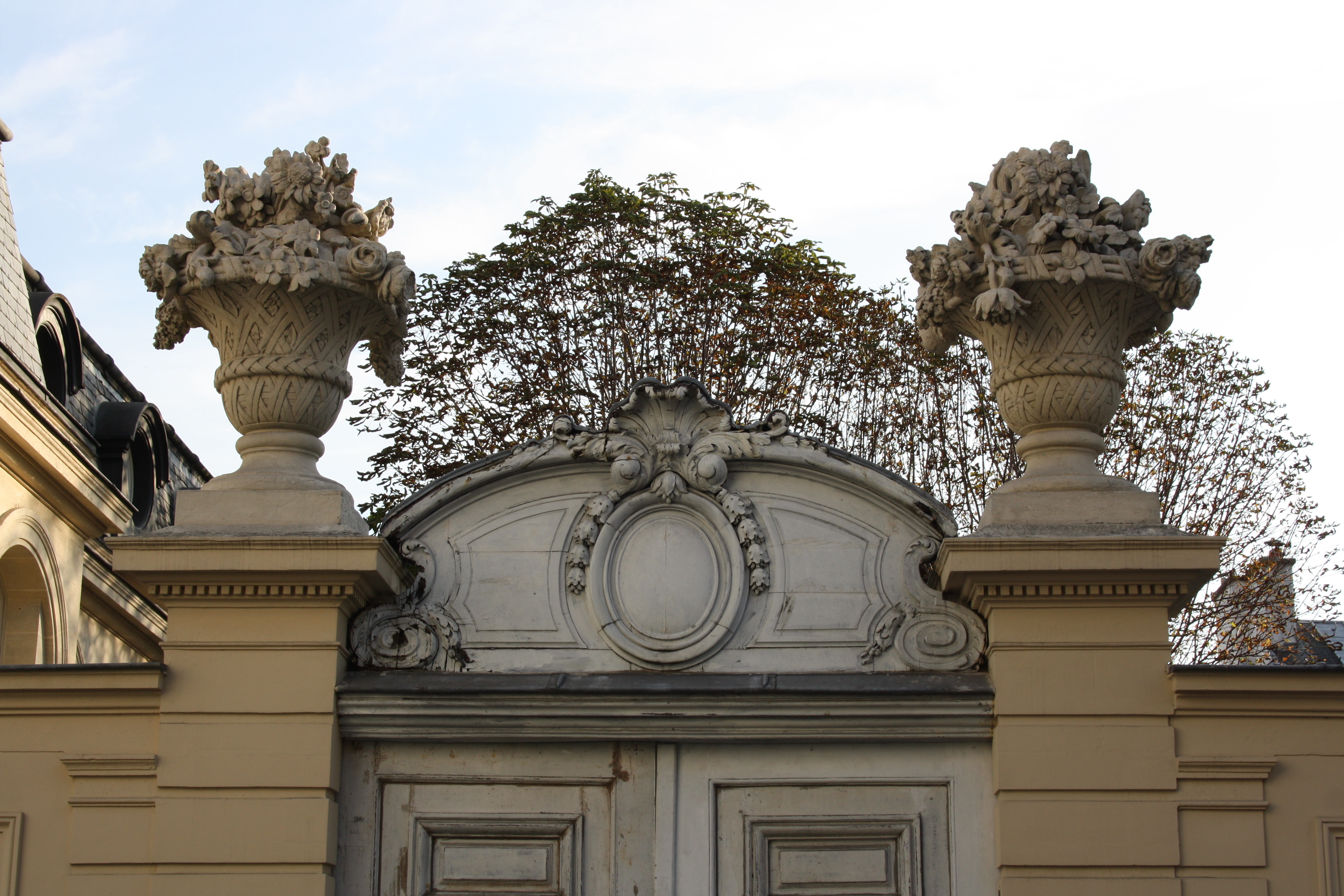 Hôtel de Noailles located 10 and 11 Alsace street in Saint-Germain-en-Laye, France.